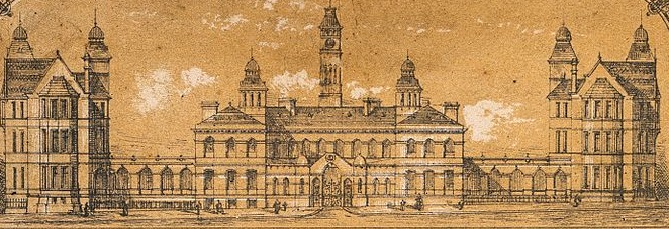 Liverpool Southern Hospital, Liverpool, Merseyside. Tinted l Wellcome V0012858 (cropped)